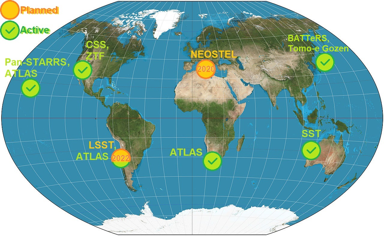 This file shows the sites of the major Near-Earth object focused sky surveys globally (current and planned).